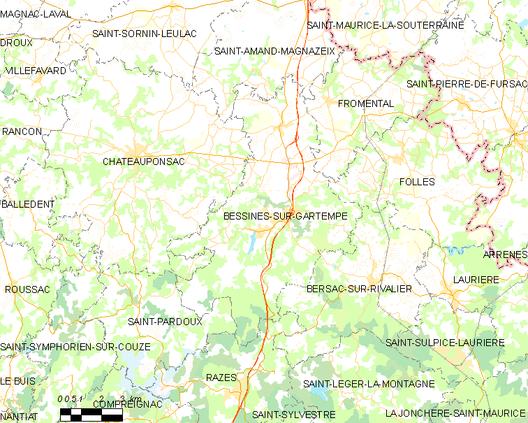 Map of French municipality Bessines-sur-Gartempe